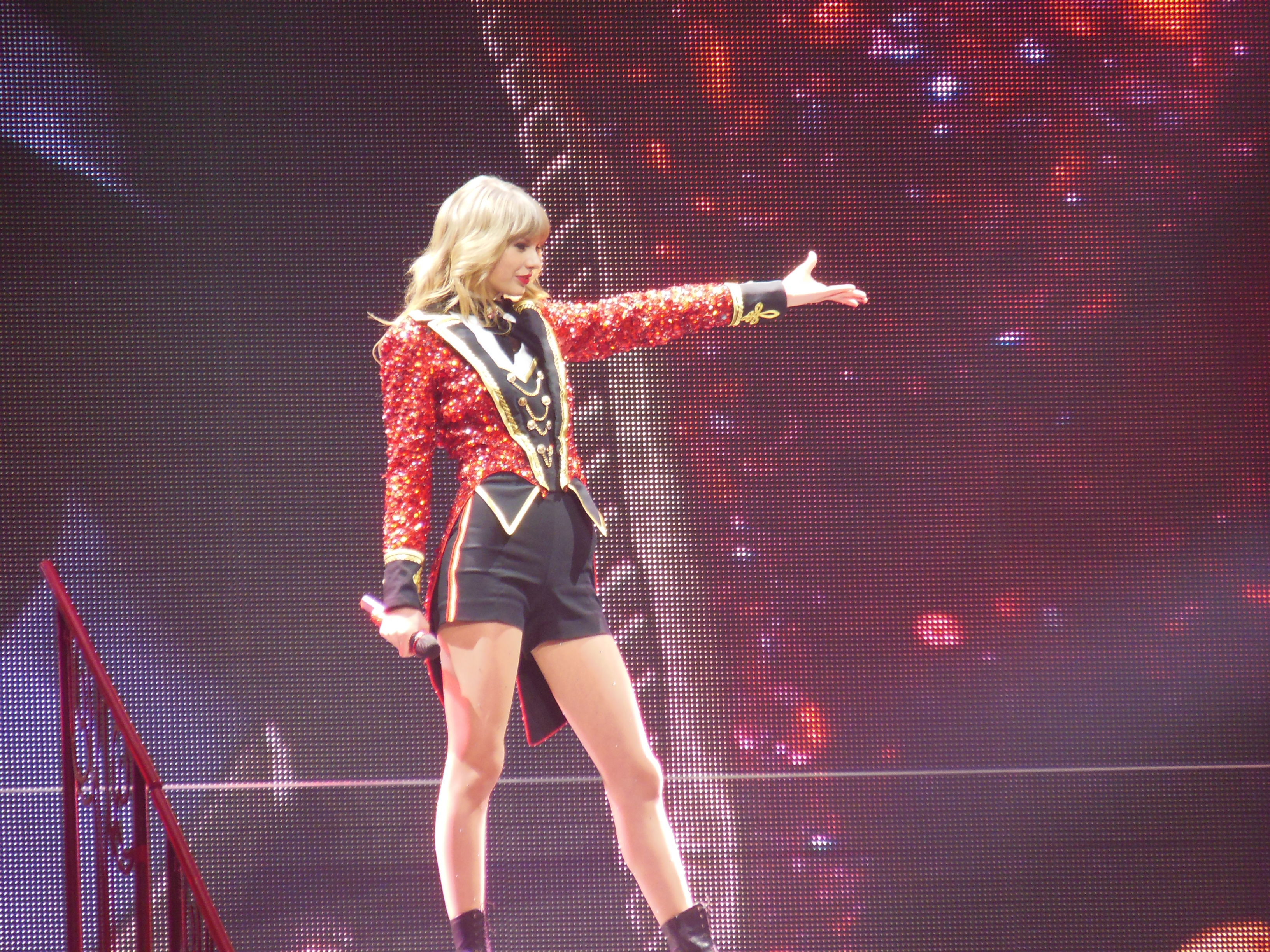 Taylor Swift RED Tour